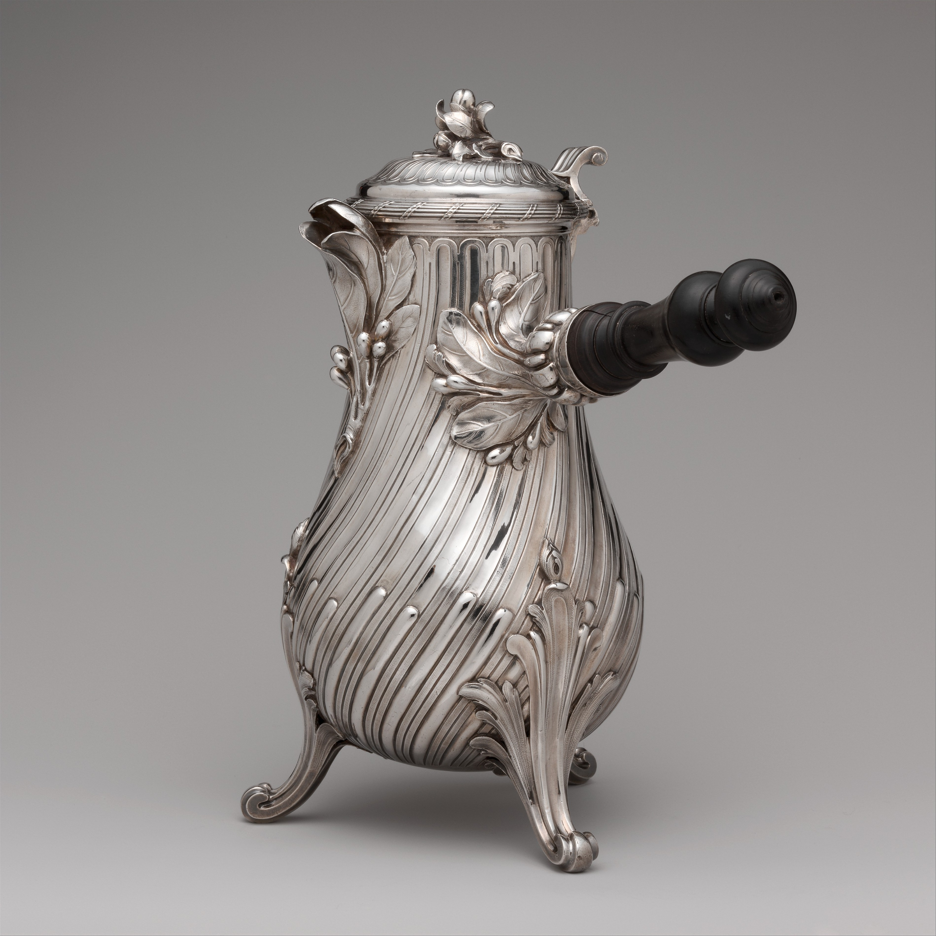 French, Paris; Coffeepot; Metalwork-Silver